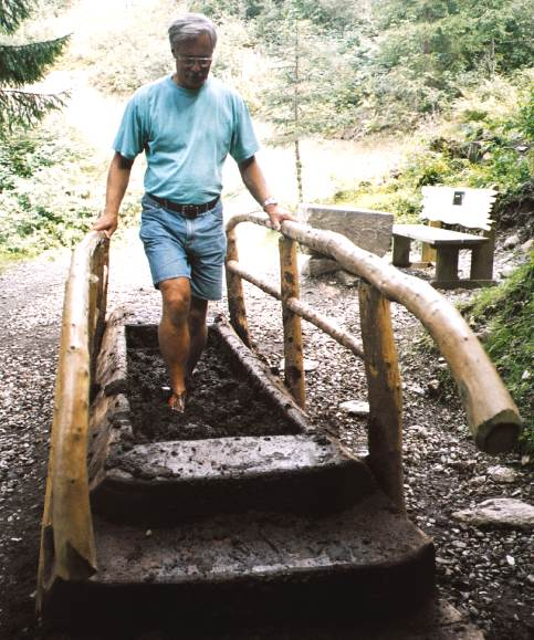 Barefoot park in the Witches' Water park in Söll in Tyrol, Austria.